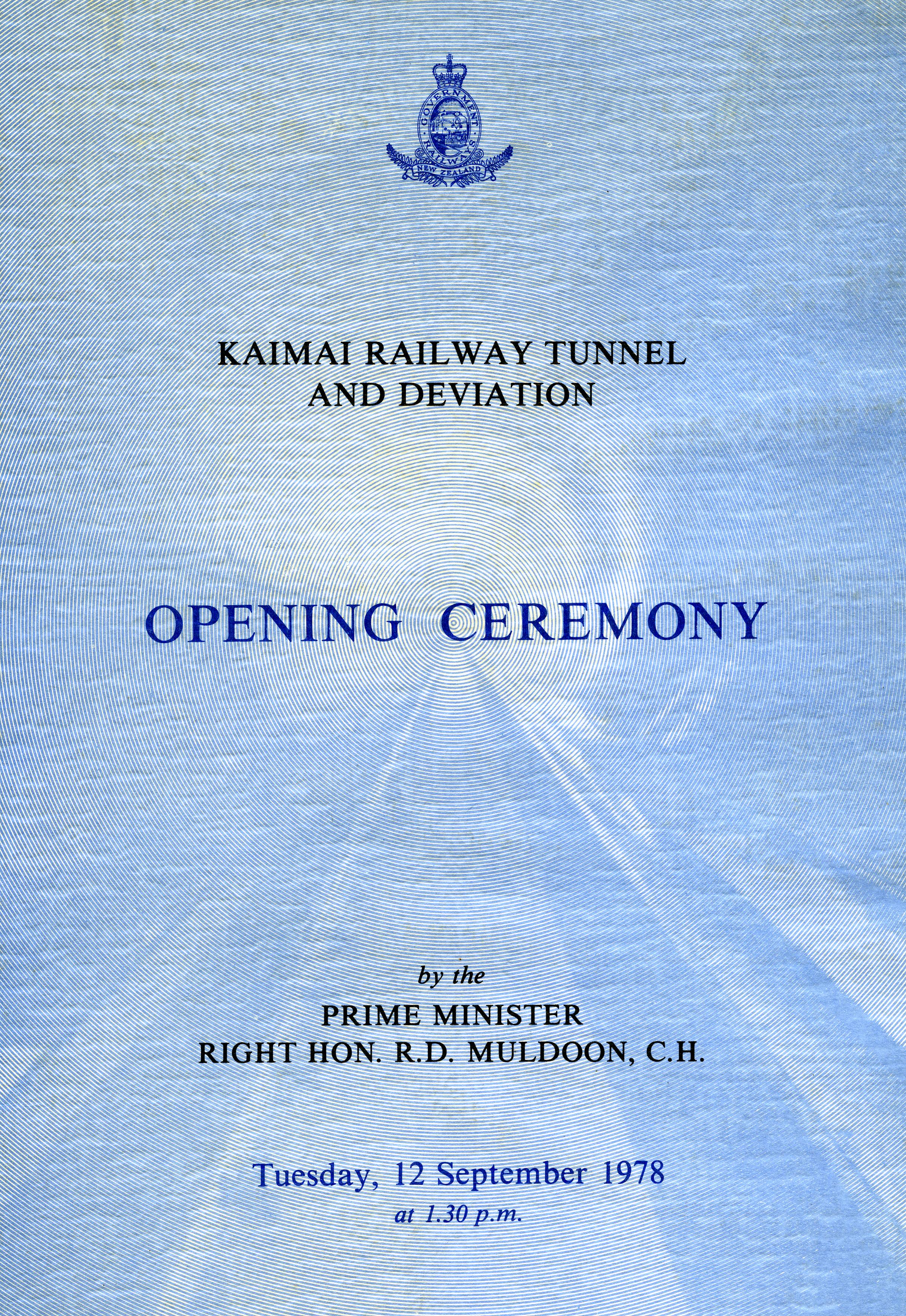 Archives Reference: ABIN W3337 Box 147 Image is of the front cover of a programme of ceremony of the opening of the Kaimai railway tunnel and deviation, Tuesday 12 September 1978. Attended by the Prime Minister, RT. Hon. Robert Muldoon, Minister of Railways, C.C.A. McLachlan, Chairman of Piako County Council, K.J. Thomas and Member of Parliament for Piako, J.F. Luxton.